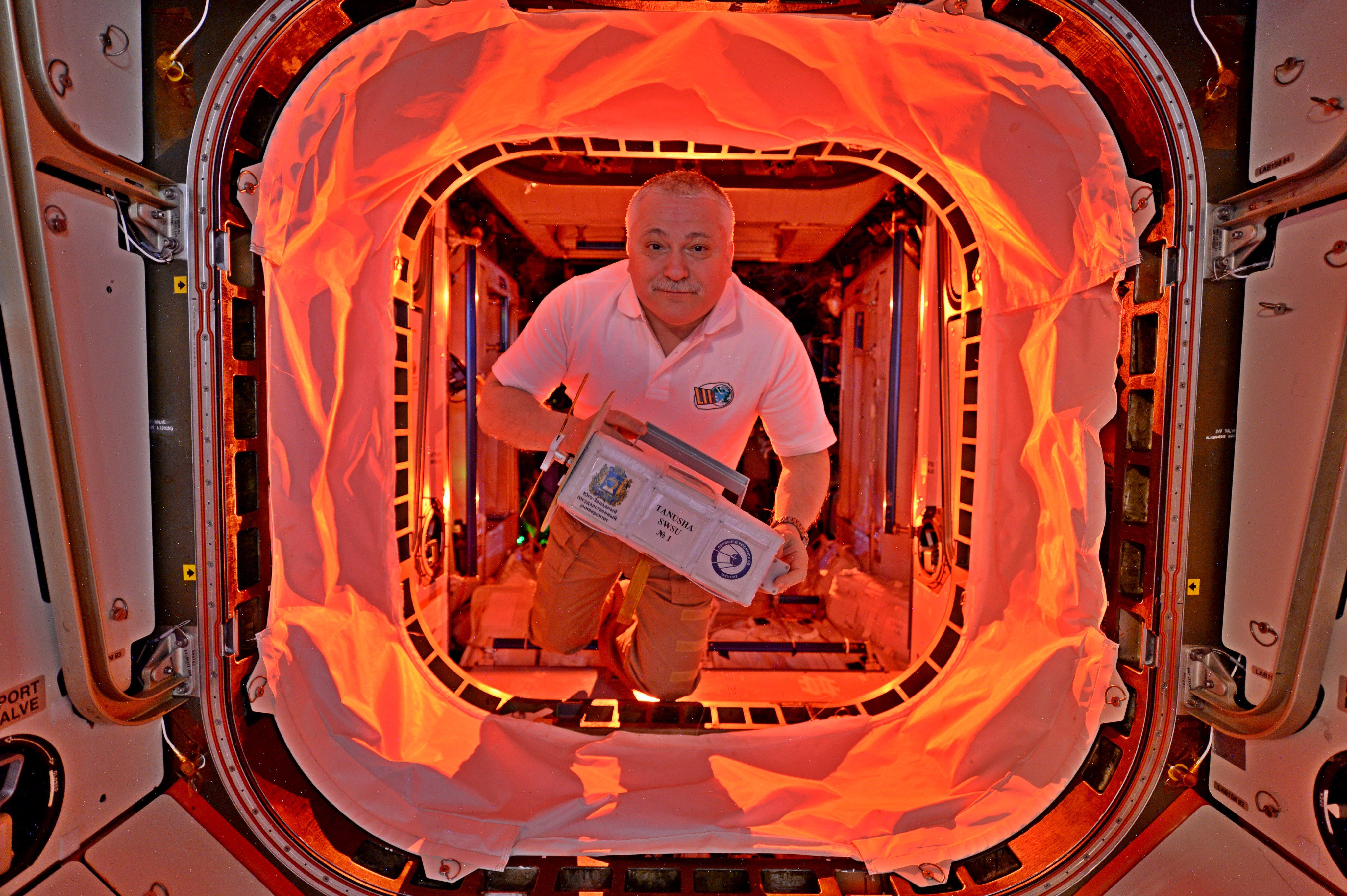 Fyodor will release 5 little satellites during a spacewalk w/ @Ryazanskiy_ISS including this little lady, Tanusha: …